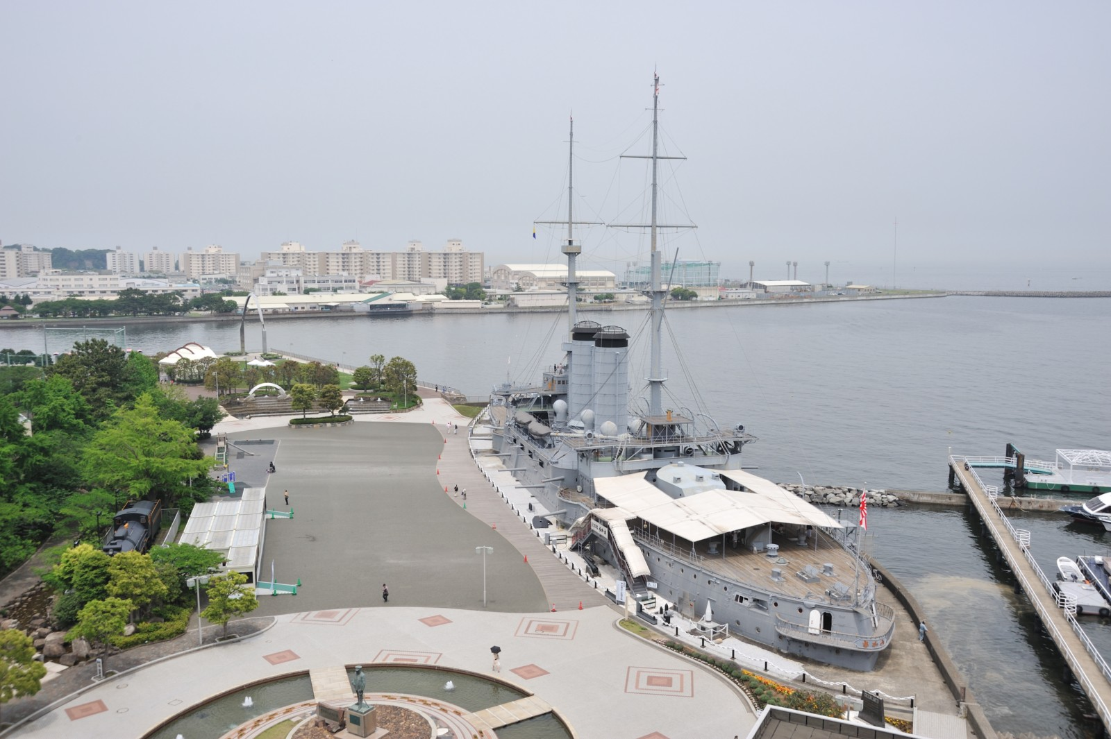 Battleship Mikasa in Mikasa Park